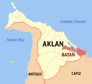 Map of Aklan showing the location of Batan